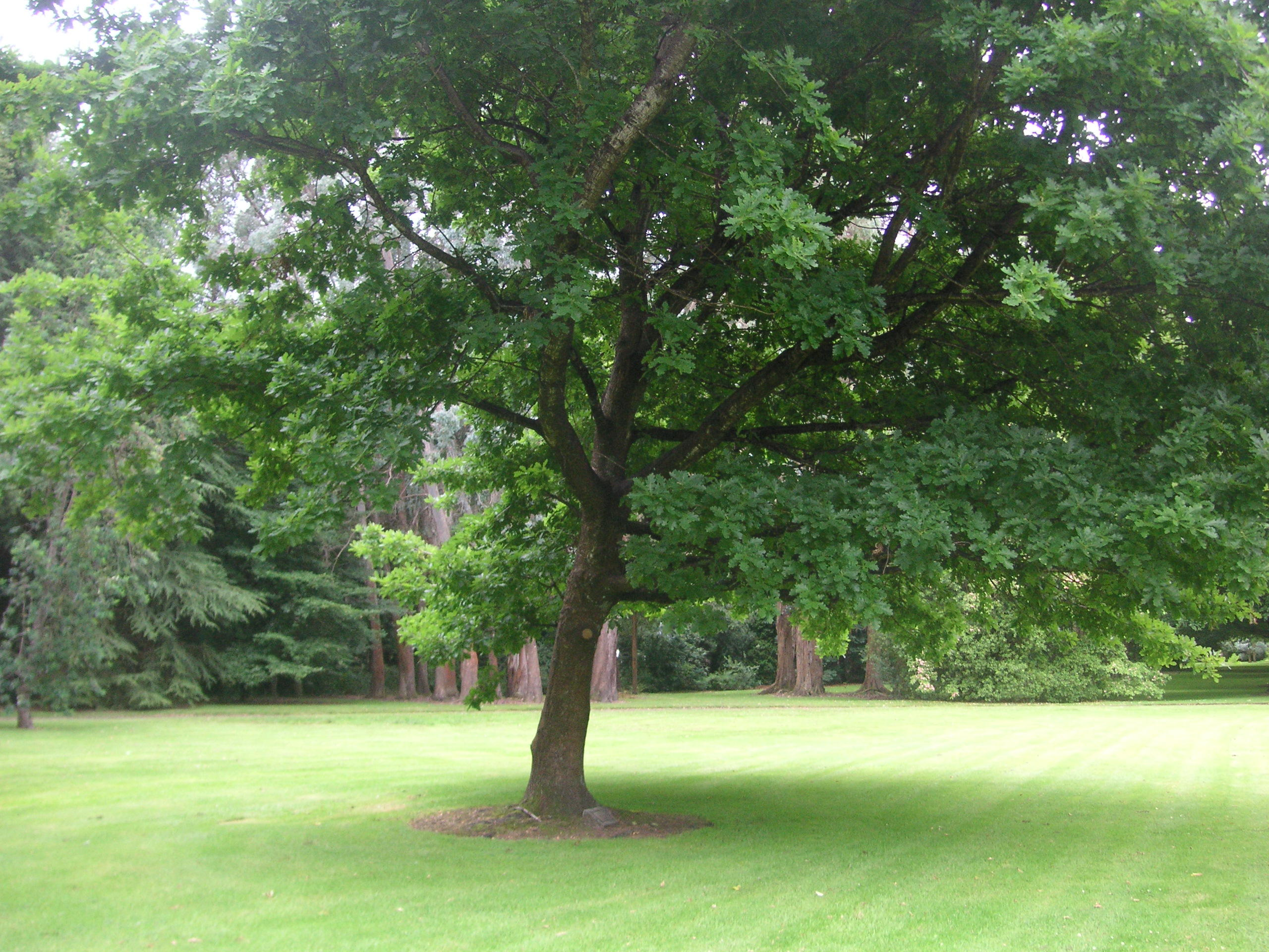 A tree in Queen's Park, Invercargill, New Zealand, with a plaque commemorating the centennial of the United Ancient Order of Druids.